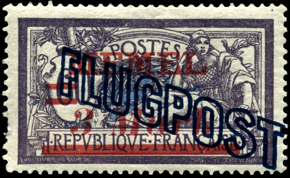 Memel 3-mark overprint airmail stamp of 1921